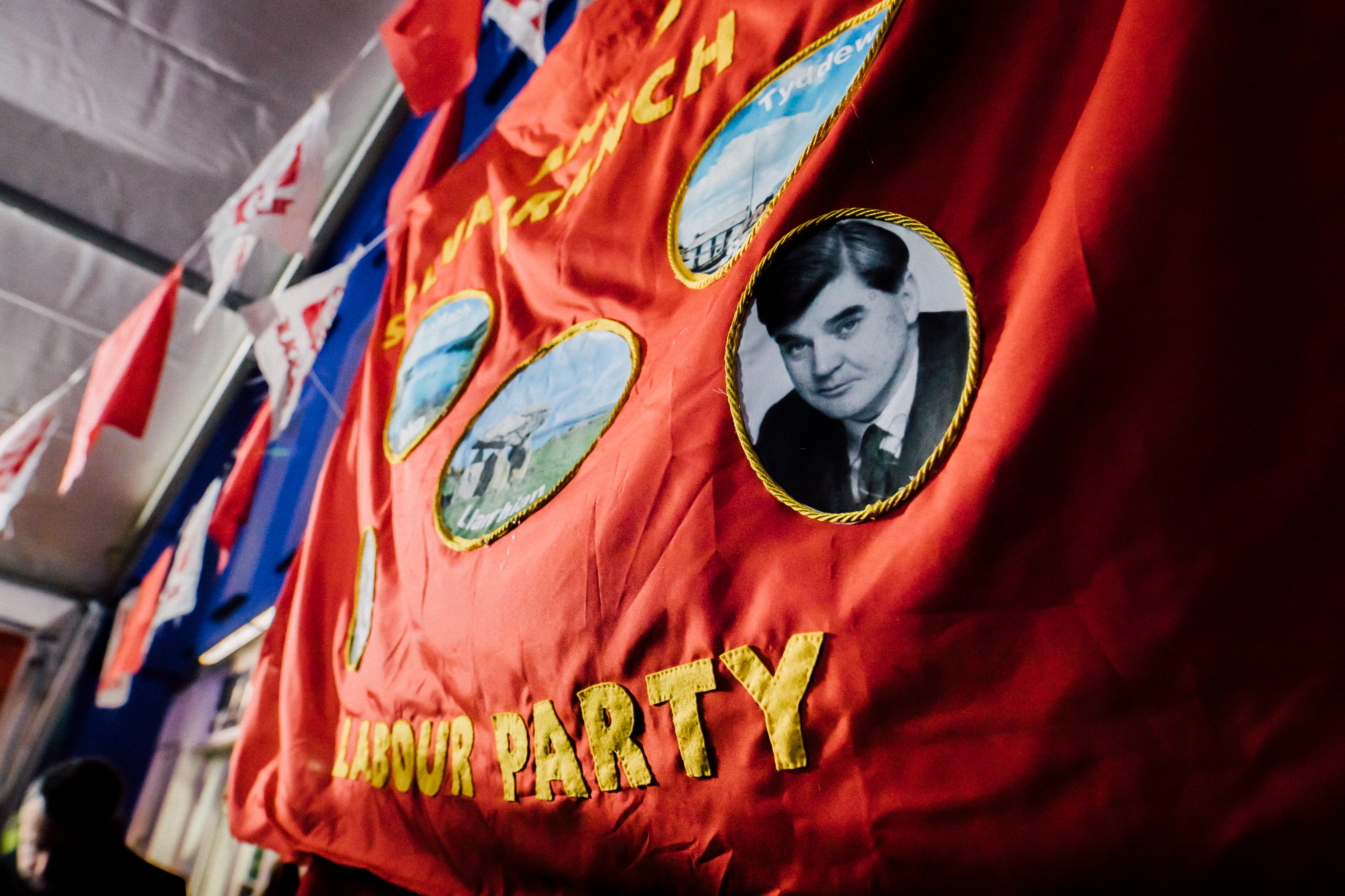 It was a pleasure to be in Haverfordwest spreading our message. (7th December, 2019) We will bring real investment and prosperity to Wales, which for too long has been held back by successive governments. Sefyll cornel Cymru.